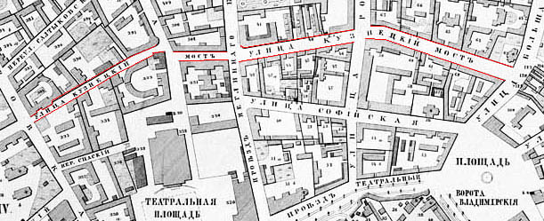 A fragment of 1853 Hotev's Atlas of Moscow (Kuznetsky Most)